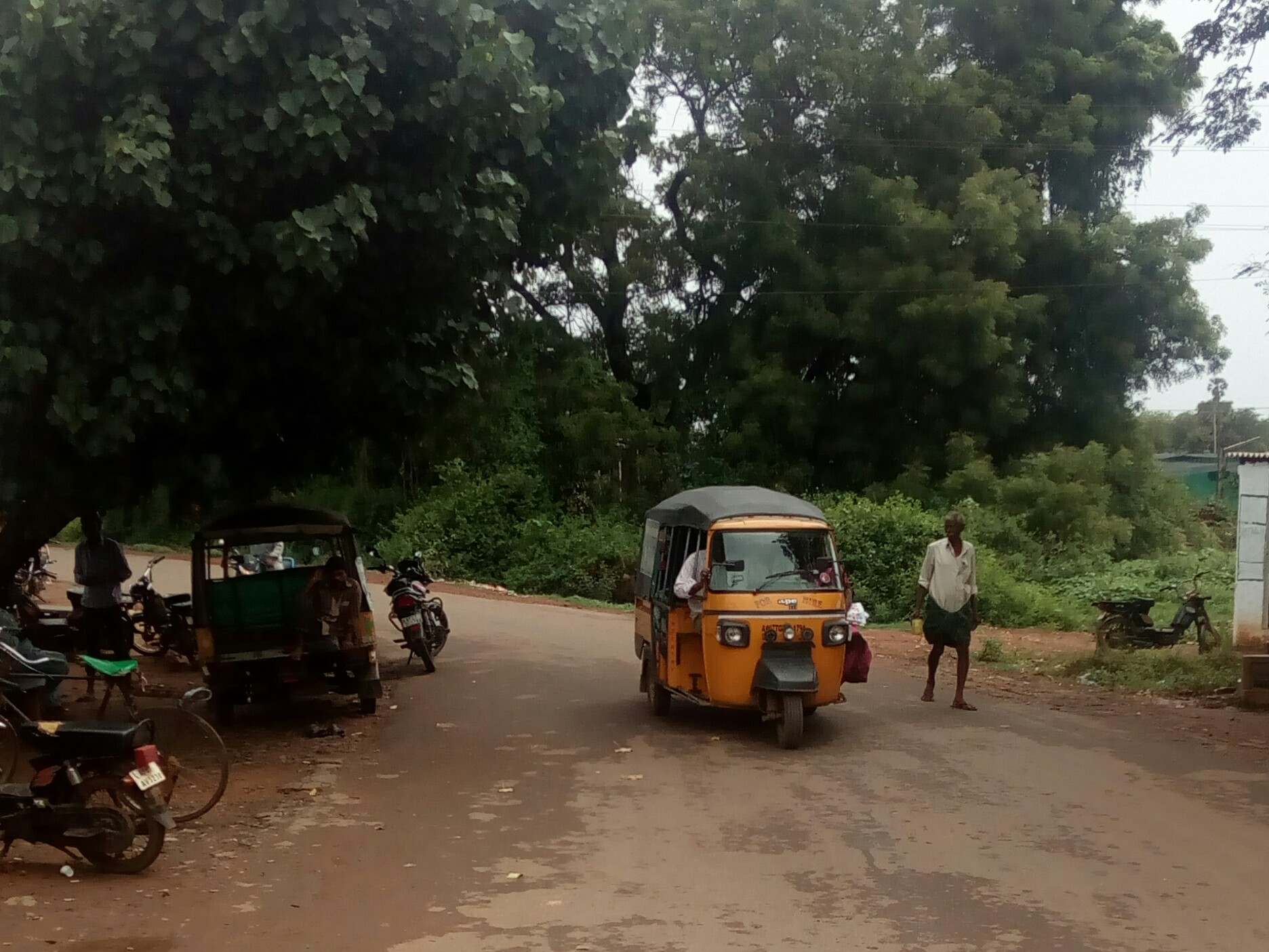 Vejendla road at the intersection of Guntur-Tenali road